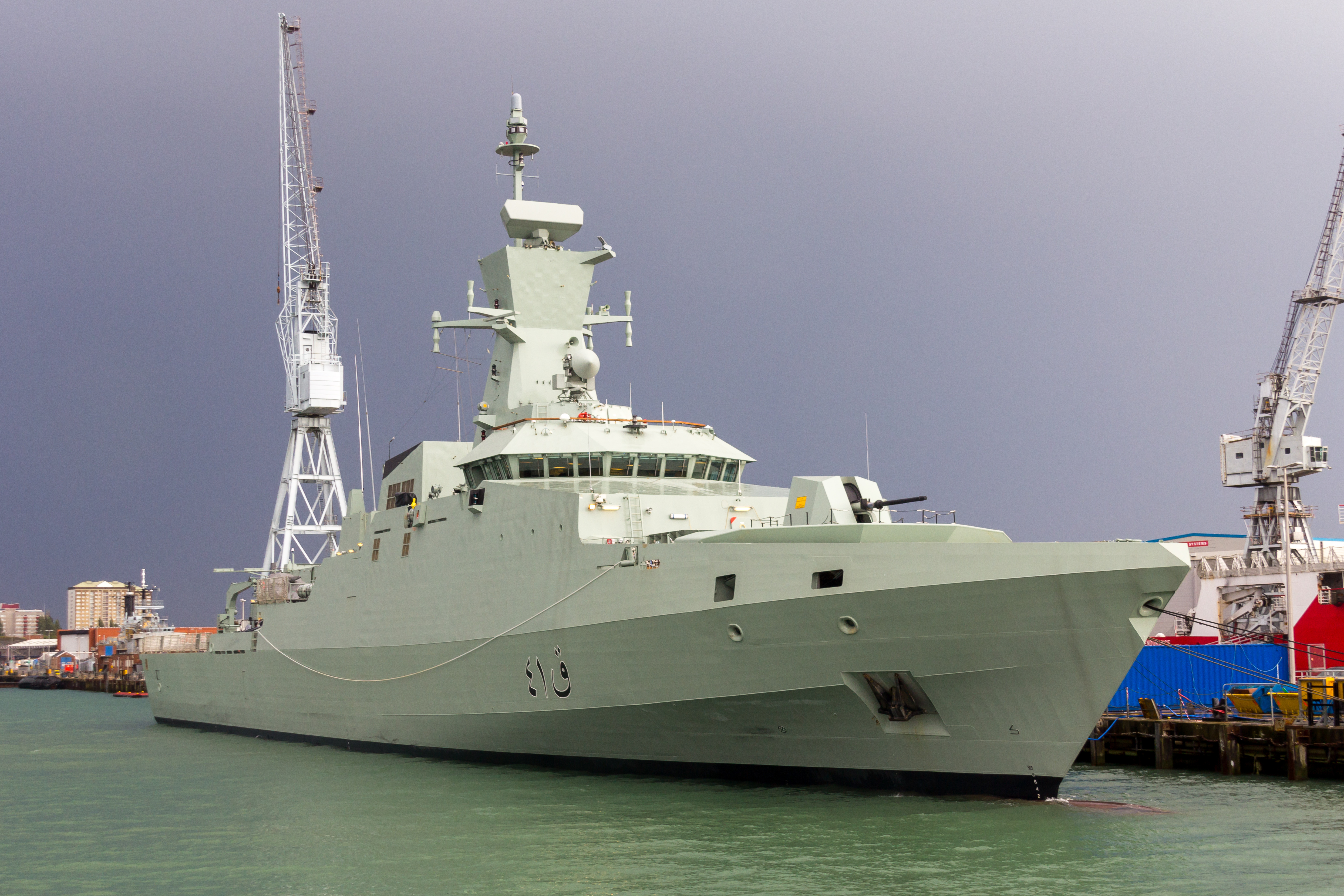 Ships in Portsmouth Harbour on 20th October 2013.